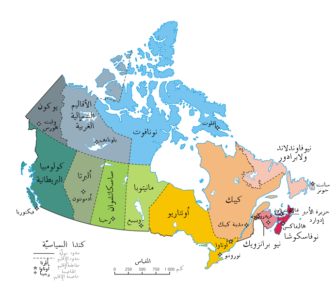 A map of Canada exhibiting its ten provinces and three territories, and their capitals. (Lambert conformal conic projection from The Atlas of Canada)